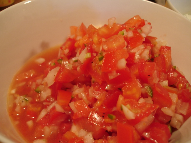 Sambal made of tomatoes and chilipeppers